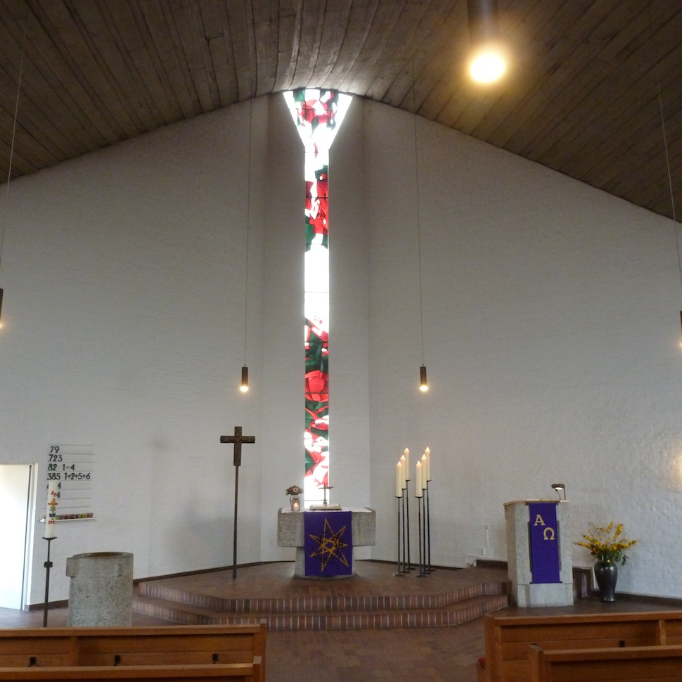 Martin-Luther-Kirche Münster Innenraum